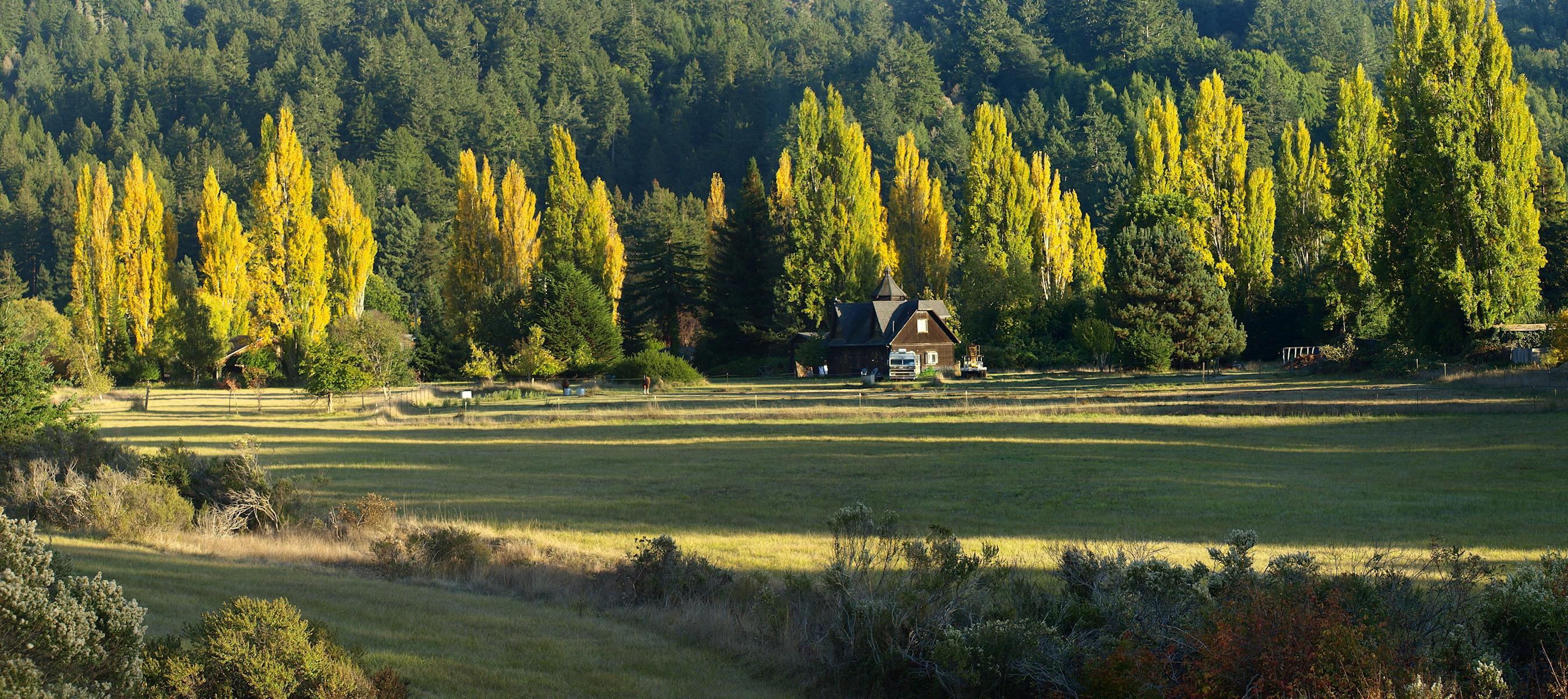 Panorama of a small field along the Russian River (California, USA).